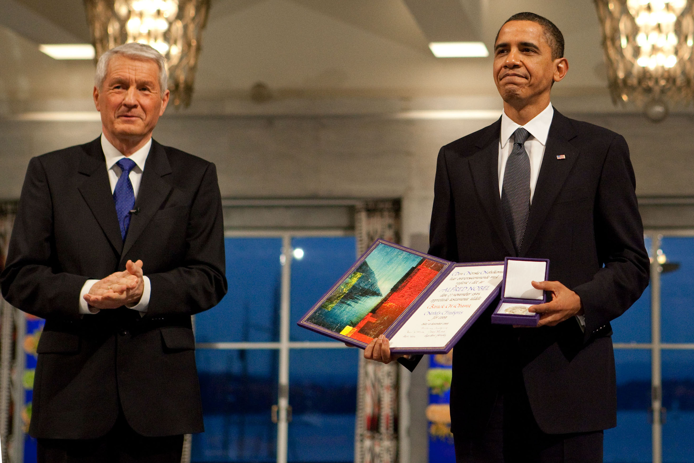 Nobel Committee Chairman Thorbjorn Jagland presents President Barack Obama with the Nobel Prize medal and diploma during the Nobel Peace Prize ceremony in Raadhuset Main Hall at Oslo City Hall in Oslo, Norway, Dec. 10, 2009.